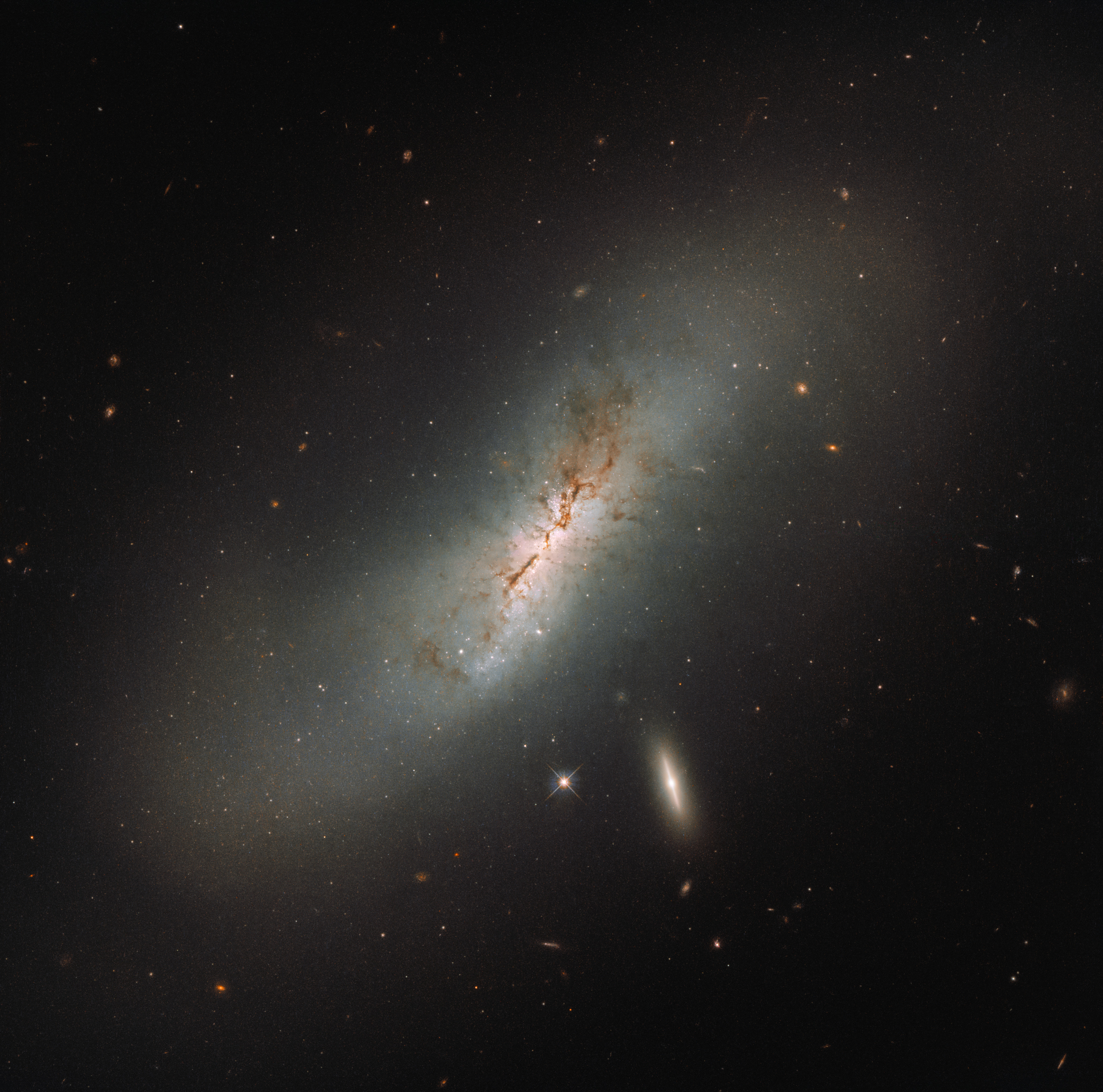 Some astronomical objects have endearing or quirky nicknames, inspired by mythology or their own appearance. Take, for example, the constellation of Orion (The Hunter), the Sombrero Galaxy, the Horsehead Nebula, or even the Milky Way. However, the vast majority of cosmic objects appear in astronomical catalogues, and are given rather less poetic names based on the order of their discovery. Two galaxies are clearly visible in this Hubble image, the larger of which is NGC 4424. This galaxy is catalogued in the New General Catalogue of Nebulae and lusters of Stars (NGC), which was compiled in 1888. The NGC is one of the largest astronomical catalogues, which is why so many Hubble Pictures of the Week feature NGC objects. In total there are 7840 entries in the catalogue and they are also generally the larger, brighter, and more eye-catching objects in the night sky, and hence the ones more easily spotted by early stargazers. The smaller, flatter, bright galaxy sitting just below NGC 4424 is named LEDA 213994. The Lyon-Meudon Extragalactic Database (LEDA) is far more modern than the NGC. Created in 1983 at the Lyon Observatory it contains millions of objects. However, many NGC objects still go by their initial names simply because they were christened within the NGC first. No astronomer can resist a good acronym, and “LEDA” is more appealing than “the LMED”, perhaps thanks to the old astronomical affinity with mythology when it comes to naming things: Leda was a princess in Ancient Greek mythology.